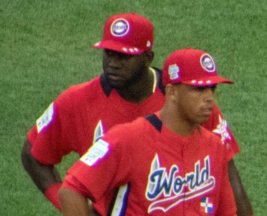 Dominican infielder Yordan Alvarez, Dominican infielder Luis Garcia, Venezuelan shortstop Andres Gimenez, Dominican infielder Fernando Tatis, Jr., Venezuelan catcher Keibert Ruiz and Dominican coach David Ortiz of the World team conduct a mound visit during the 2018 All-Star Futures Game at Nationals Park in Washington, D.C.